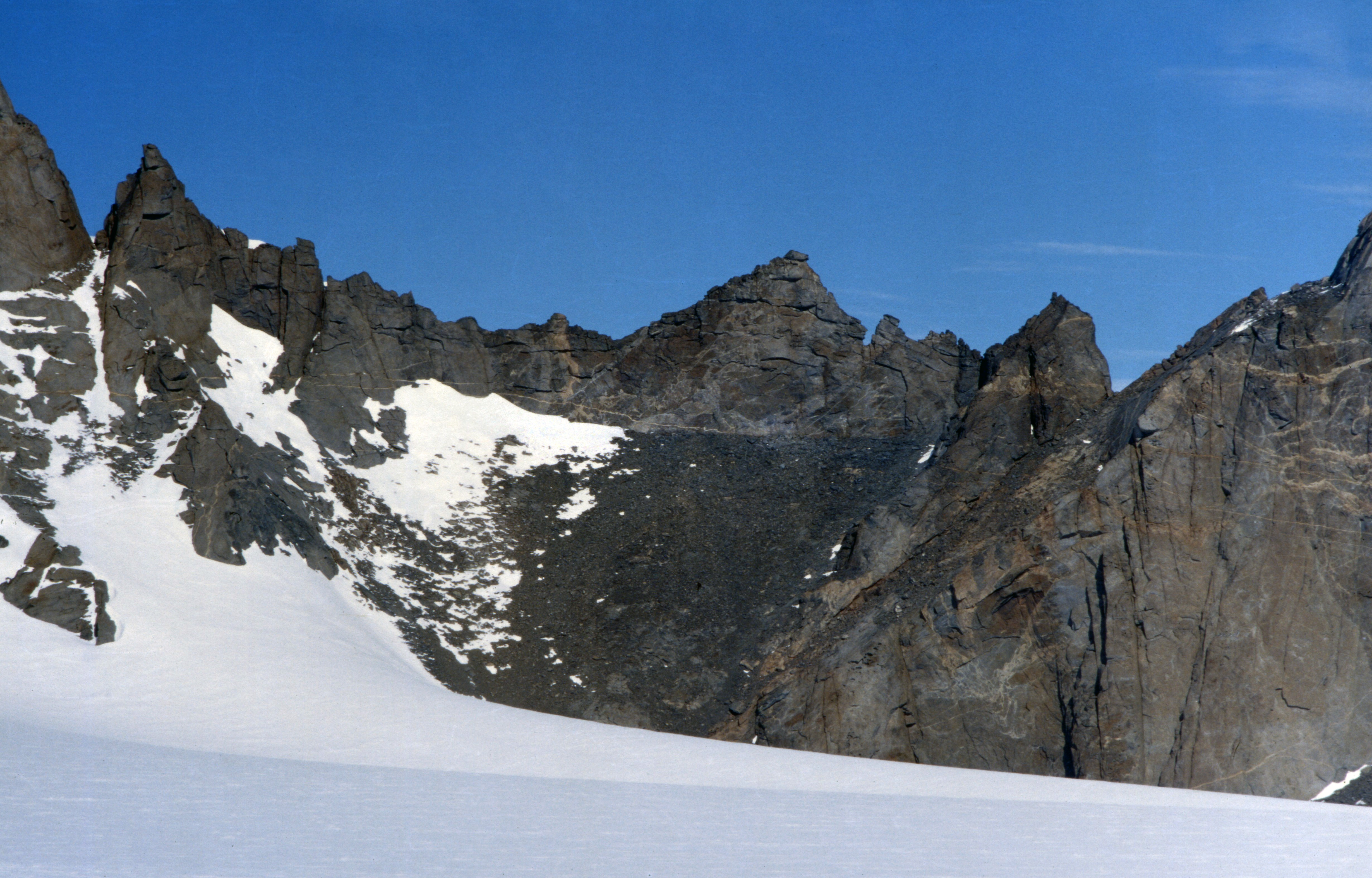 Hochlinfjellet (Norwegian) or Preuschoffrücken (German) in the northwestern Mühlig-Hofmann-Mountains, Antarctica